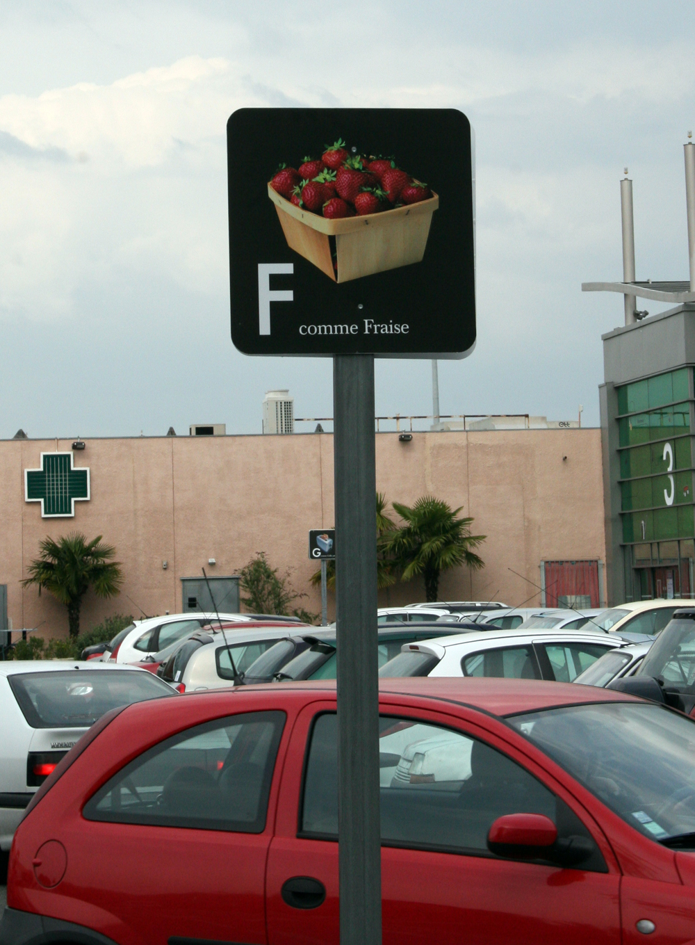 example of visual mnemonic in a French supermarket car park